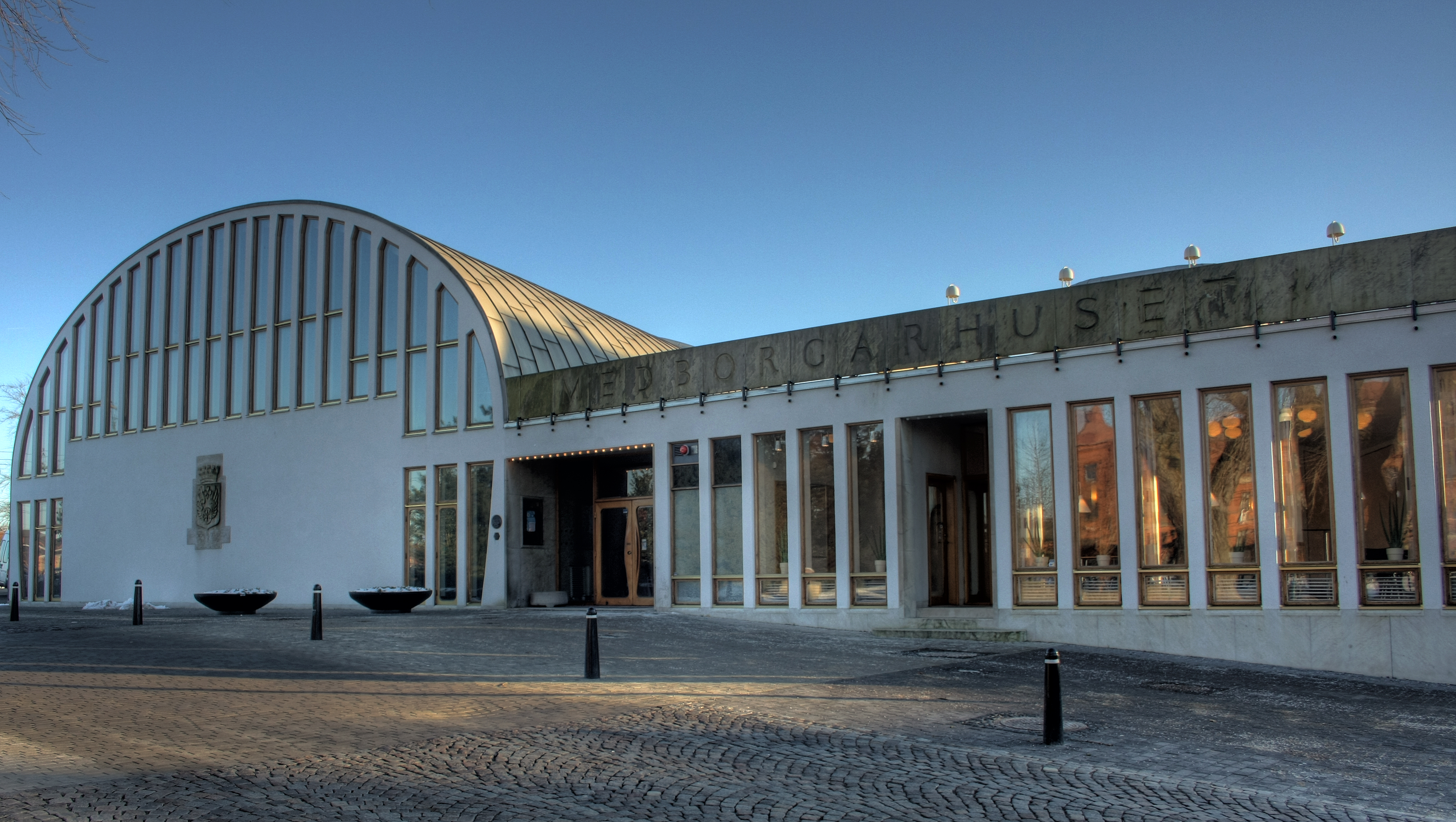 The citizen hall of Eslöv, Sweden.